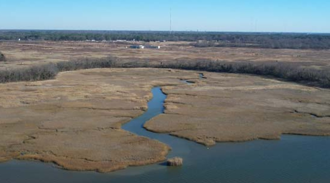 Nansemond National Wildlife Refuge: Tidal marsh on Nansemond River, Virginia, USA